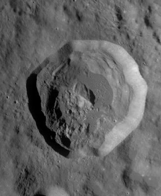 Stearns lunar crater. LROC WAC image No. M118791271ME. Calibrated by LROC_WAC_Previewer.